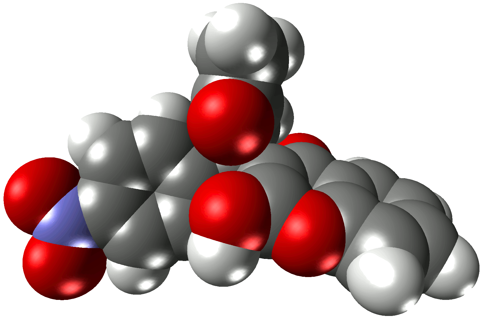 Acenocoumarol